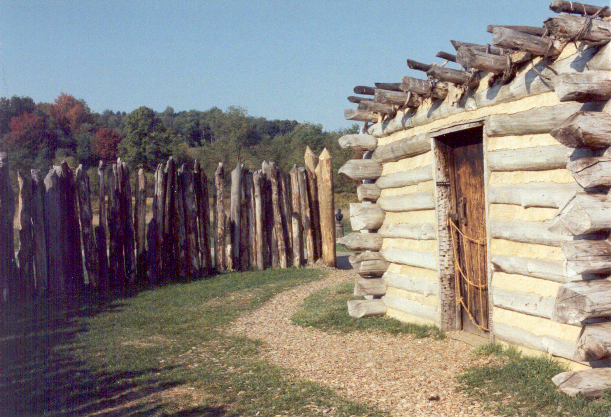 Inside the stockade of Fort Necessity National Battlefield near Farmington, Pennsylvania.